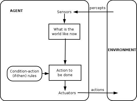 Simple reflex agent, based on Artificial Intelligence: A Modern Approach